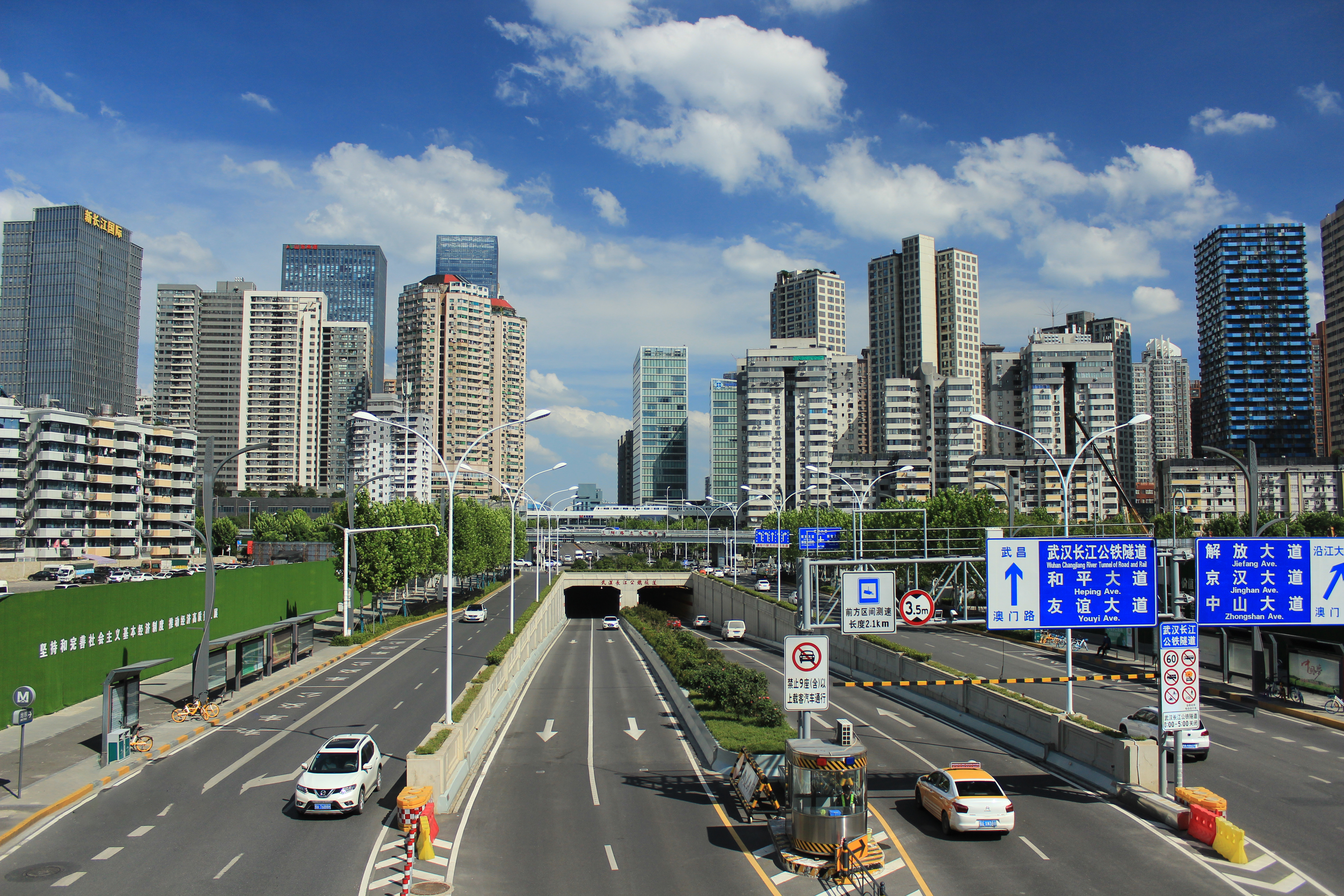 Wuhan Yangtze River Tunnel of Raod and Rail, Sanyang Road Overpass, and Wuhan Metro Line 1